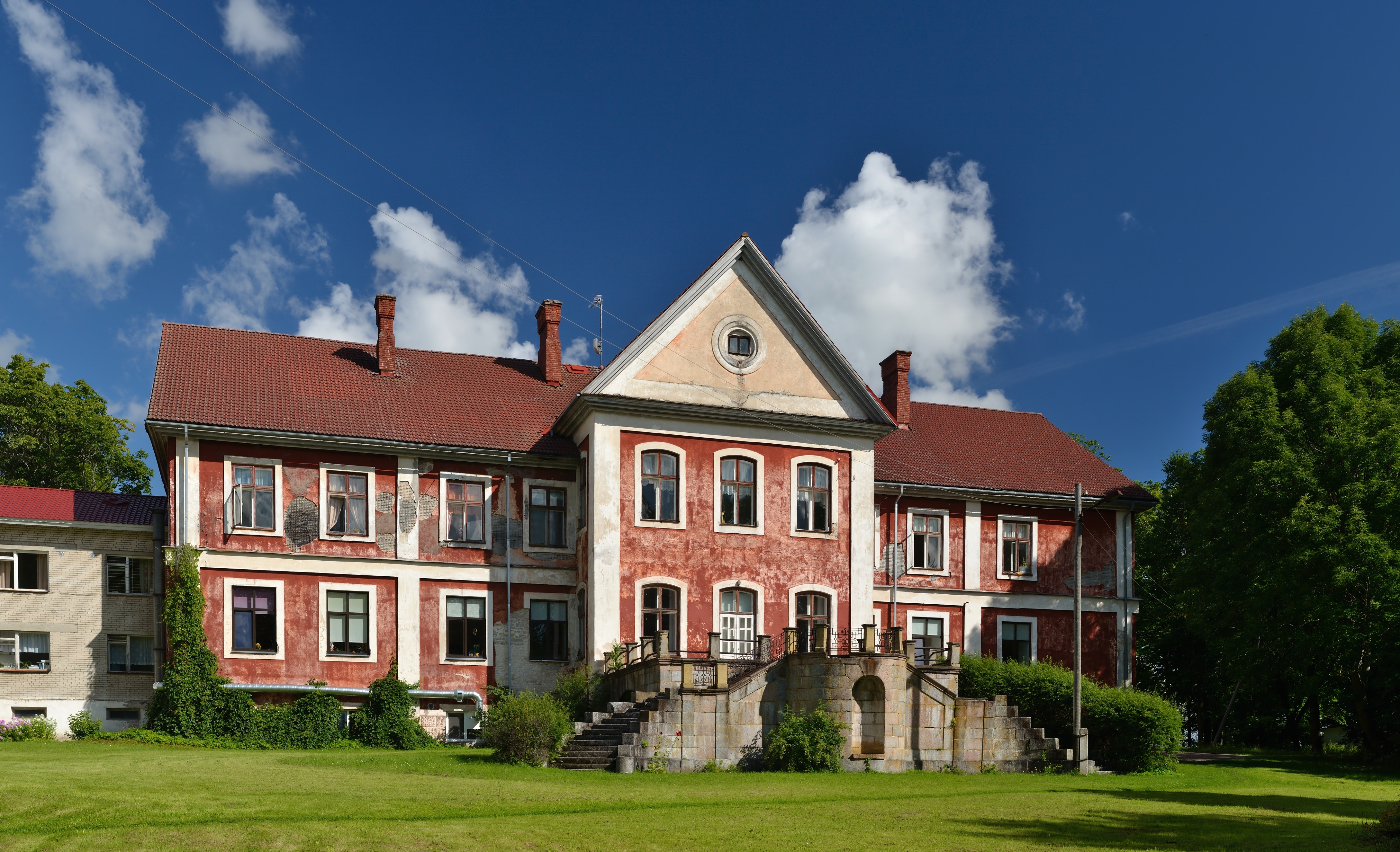 Ravila manor main building